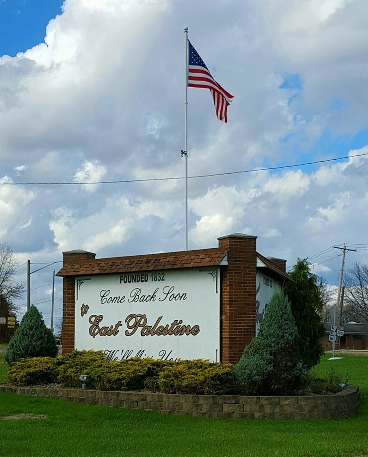 Entrance sign going into East Palestine, Ohio from the north.